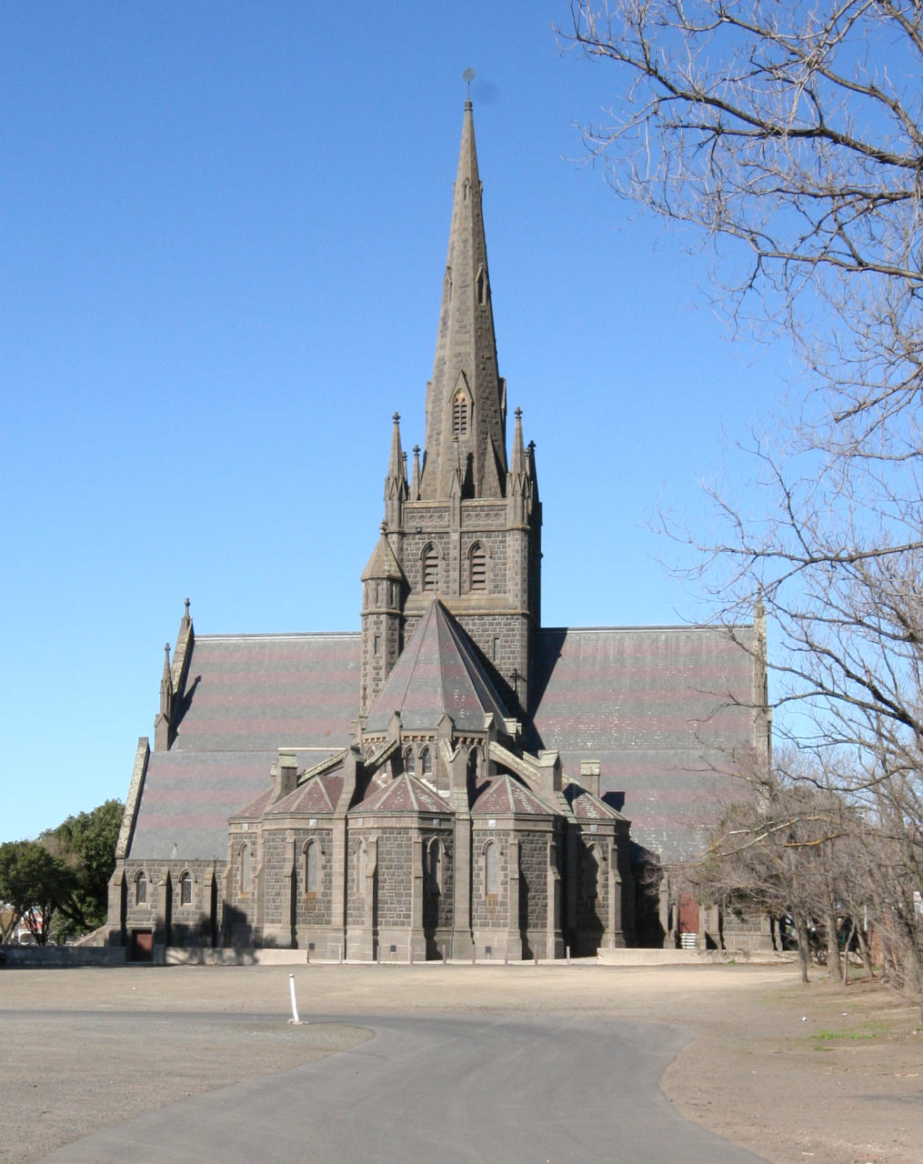 St Mary's Church - Geelong, Victoria, Australia